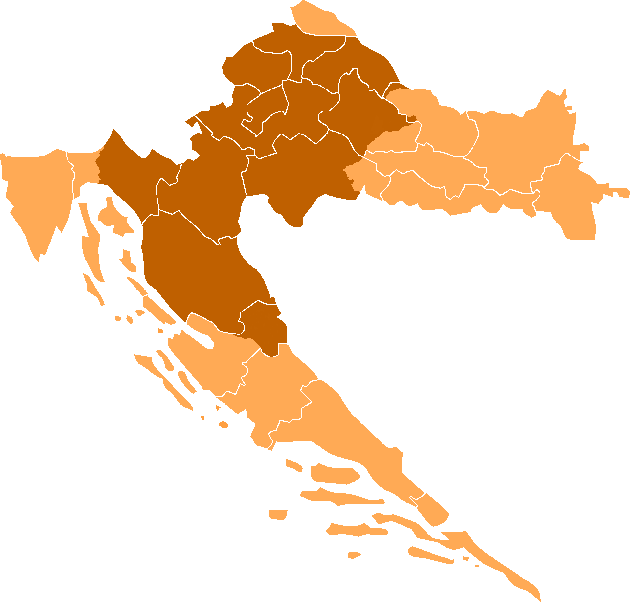 Central Croatia highlighted. Made from Morwen's maps.